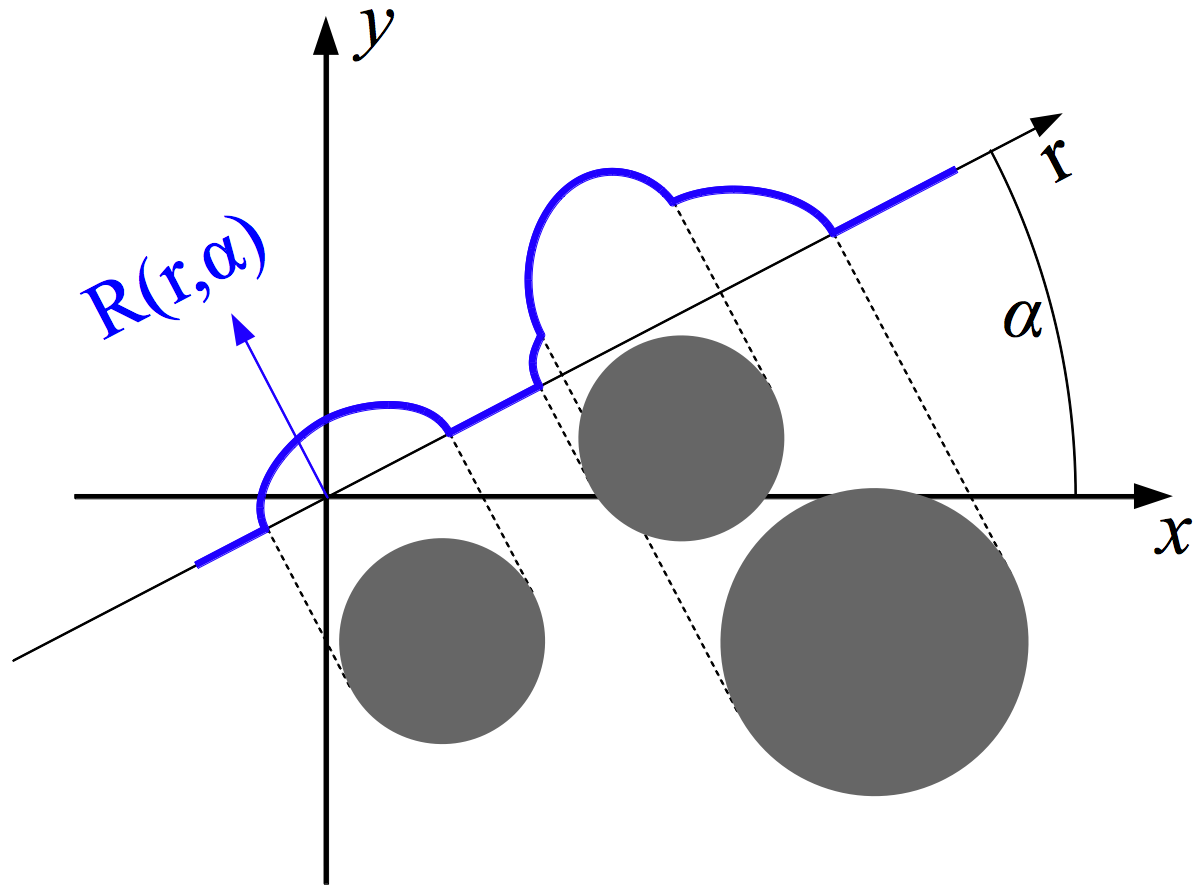 Scheme of projection as done in the Radon transform. The function value is 1 in the gray areas, 0 otherwise. The projection is blue.